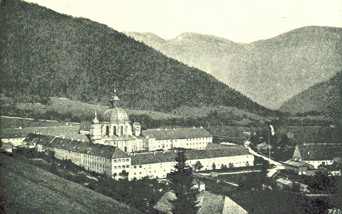 Image extracted from page 73 of above (page number relates to the digital version and can differ from the pagination within the book). Original held and digitised by the British Library. Note: The colours, contrast and appearance of these illustrations are unlikely to be true to life. They are derived from scanned images that have been enhanced for machine interpretation and have been altered from their originals.